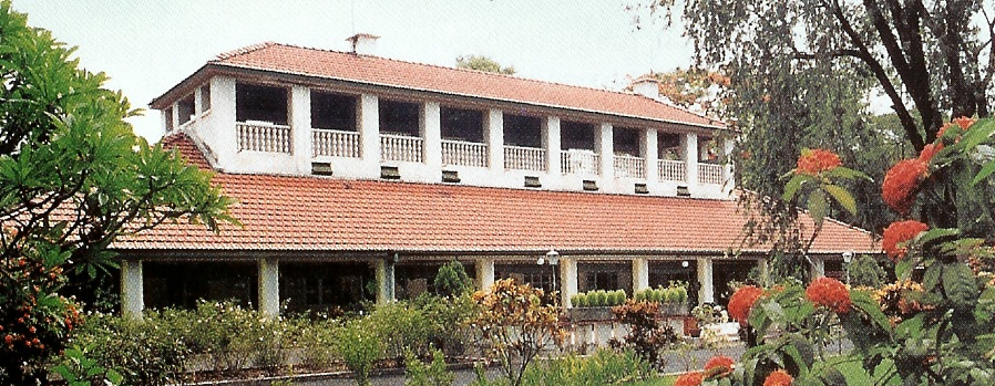 Pic by courtesy SAIL PR Source: Pic taken by the Public Relations department of The Indian Iron & Stel Co. Ltd. No copyright on this photograph. The PR department supplies and allows photographs to be published.